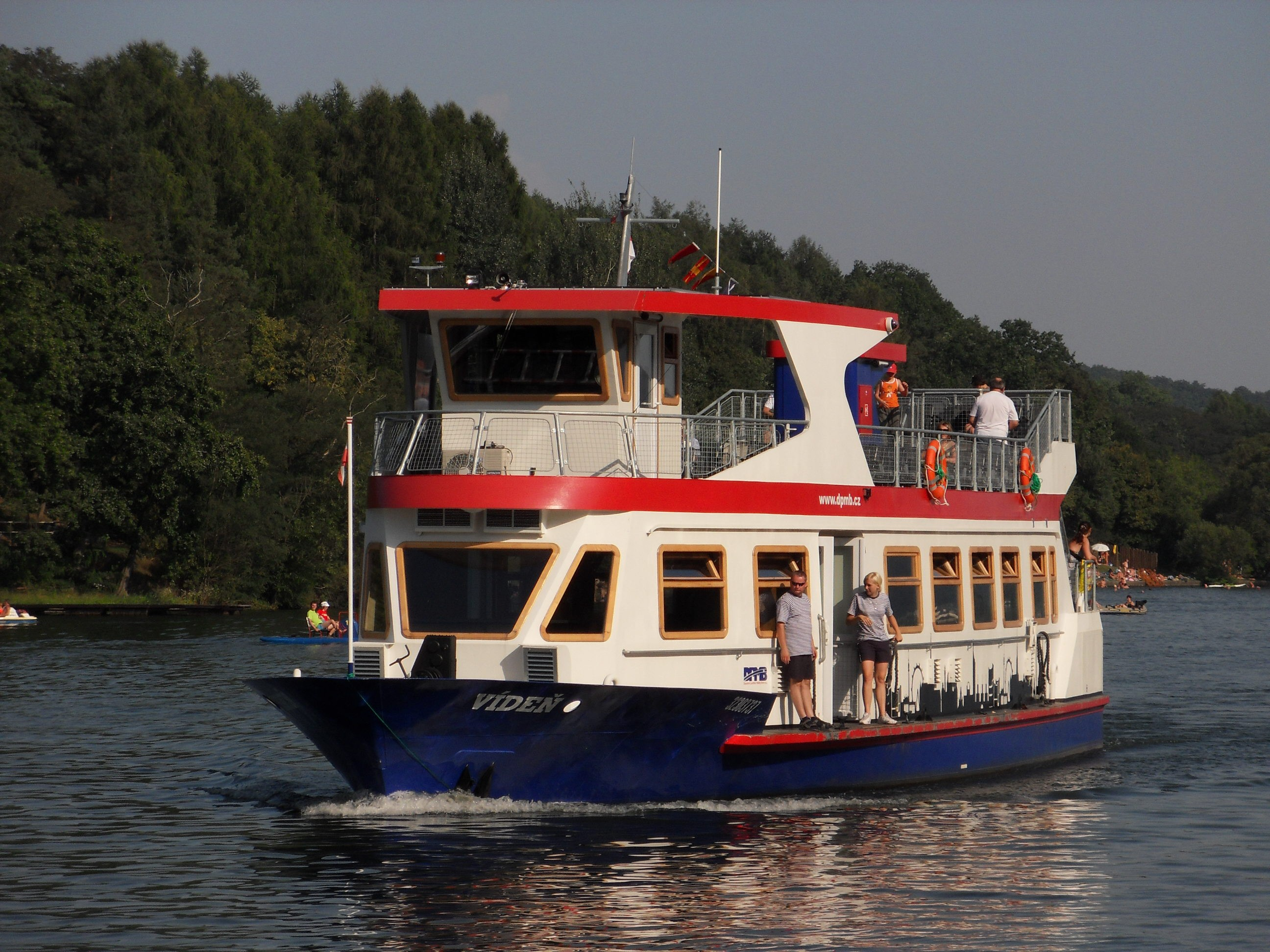 Vídeň ship at Brno Reservoir, Brno, Czech Republic